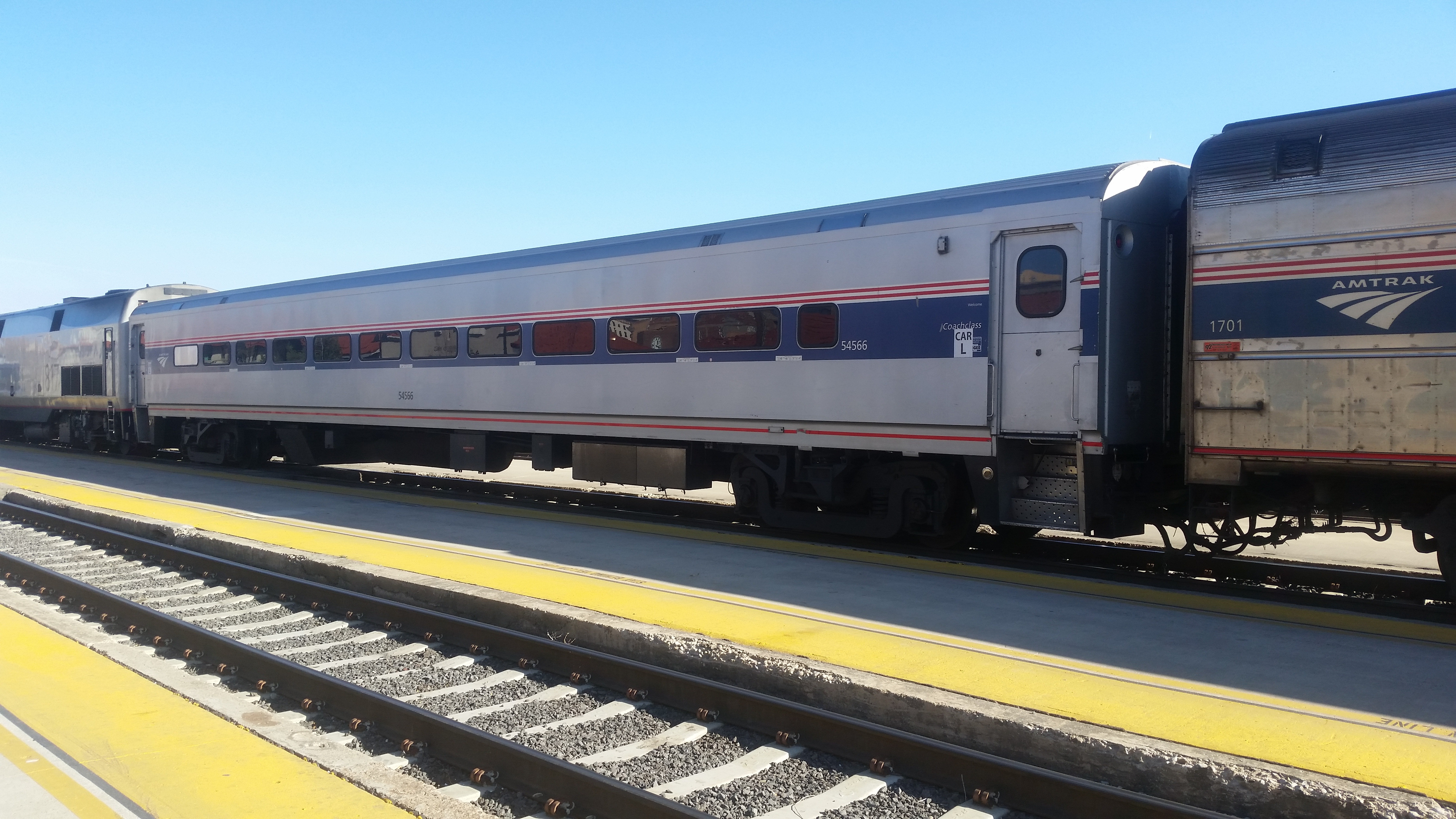 Our Southwest Chief had a Horizon coach deadheading to Chicago.